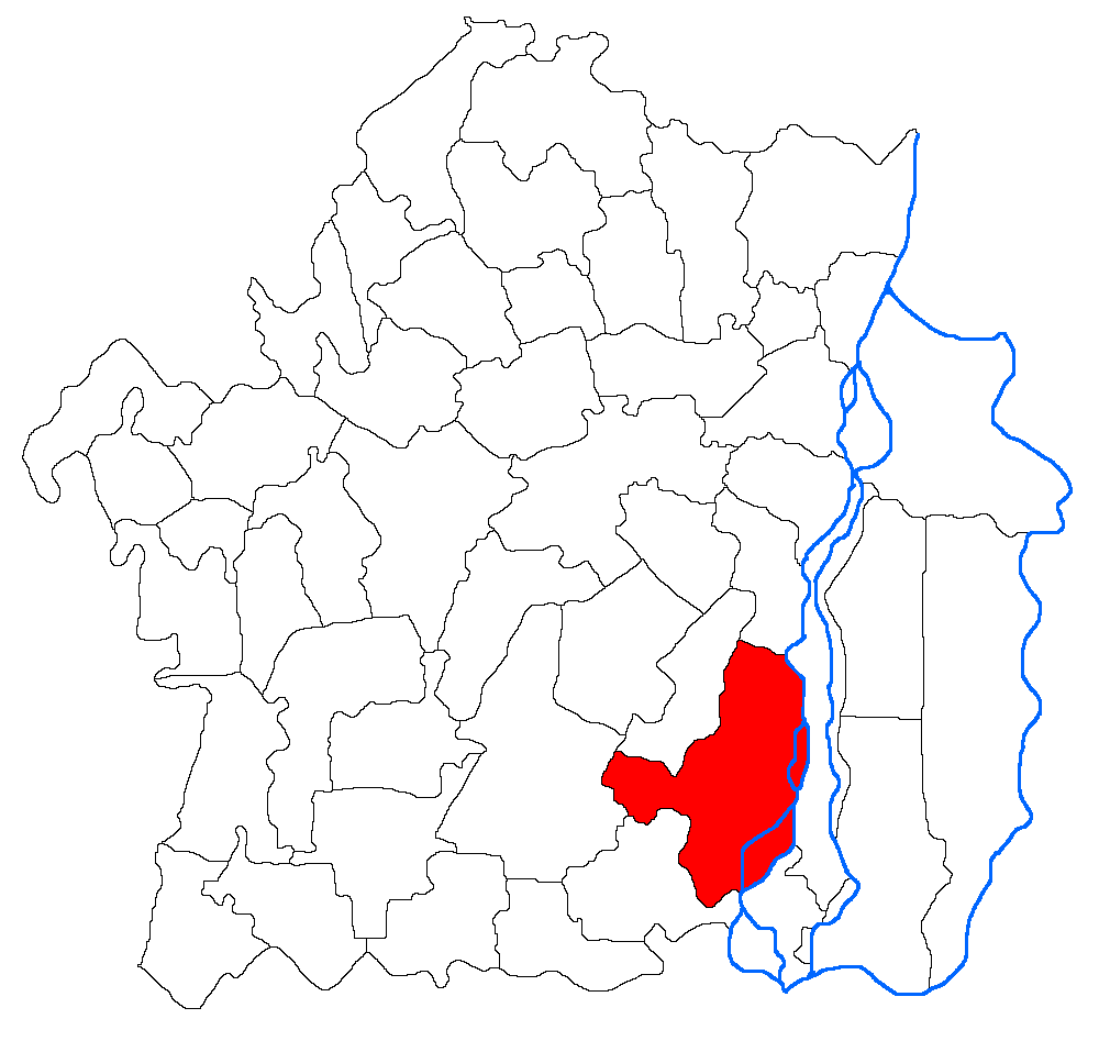 Limits of the commune of Stăncuţa in Brăila County, Romania